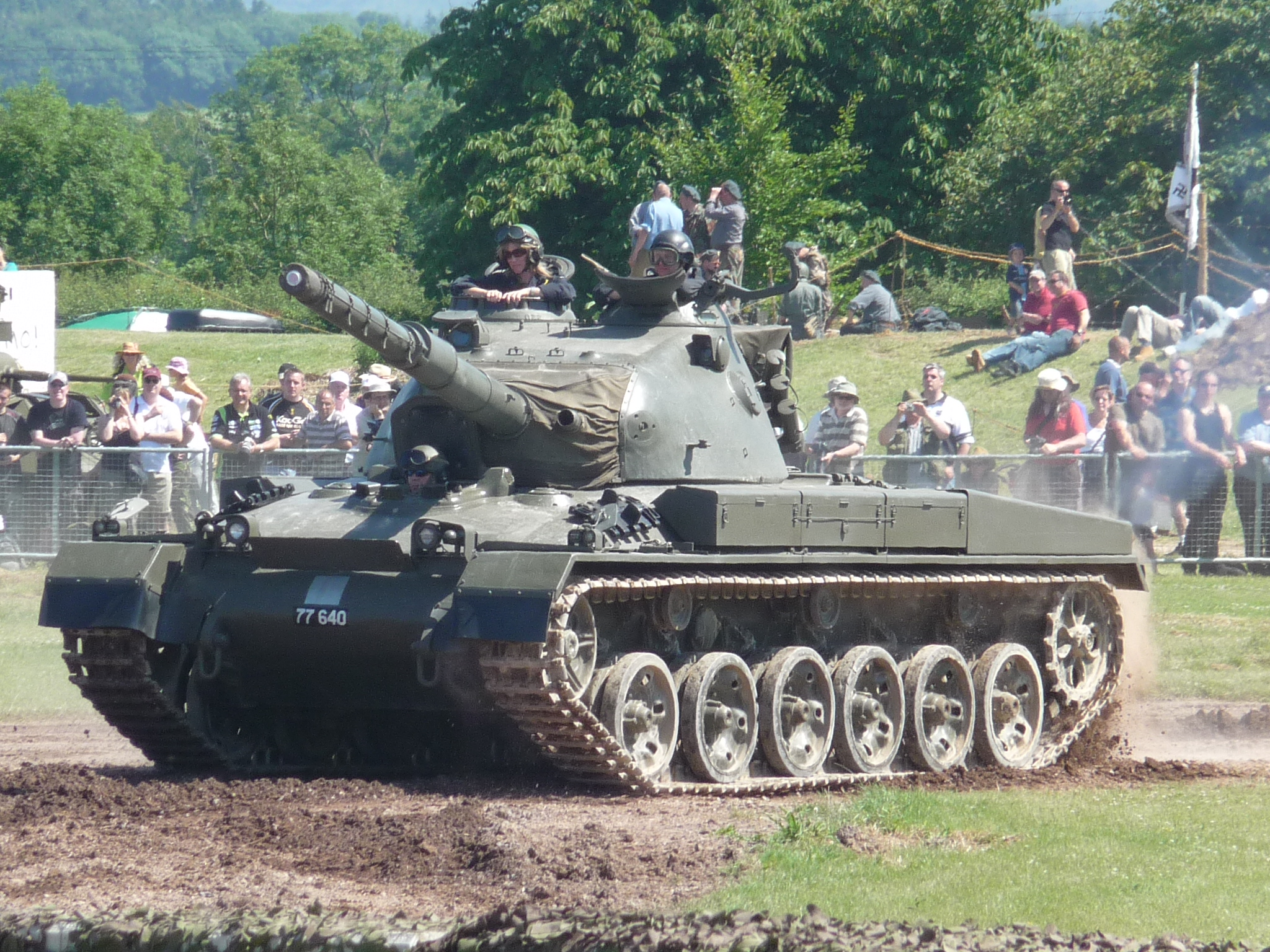 Panzer 61